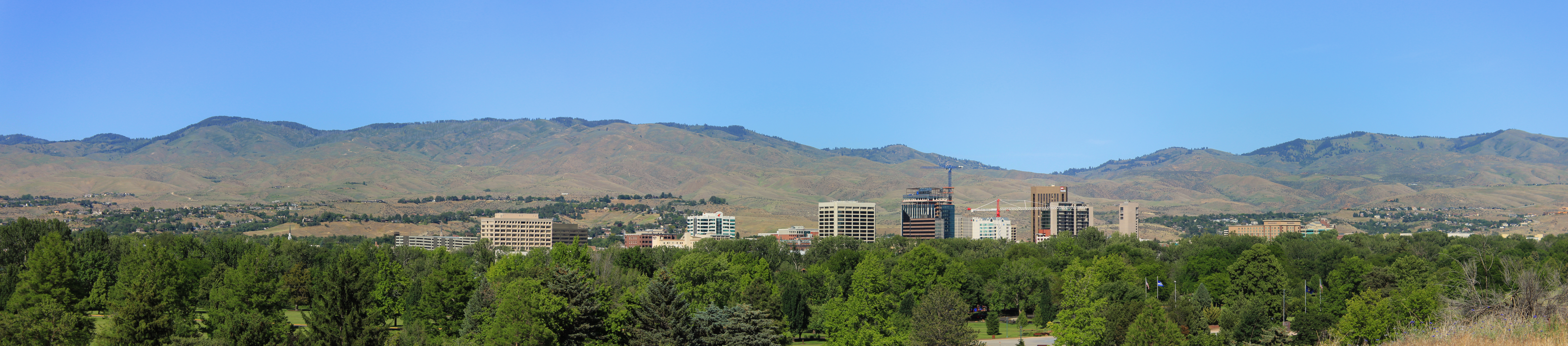 Downtown Boise as seen from the Boise Bench